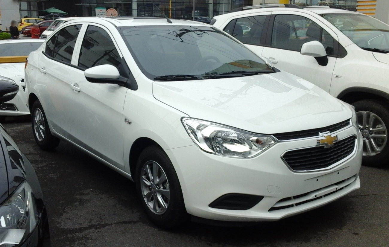 Chevrolet Sail 3 photographed in Shanghai, China.